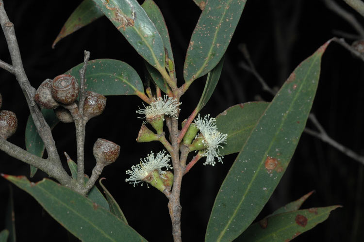 Fruit of Eucalyptus stricta at the Tianjara fire trail, south-east of Sassafras, Budawang Ranges, New South Wales